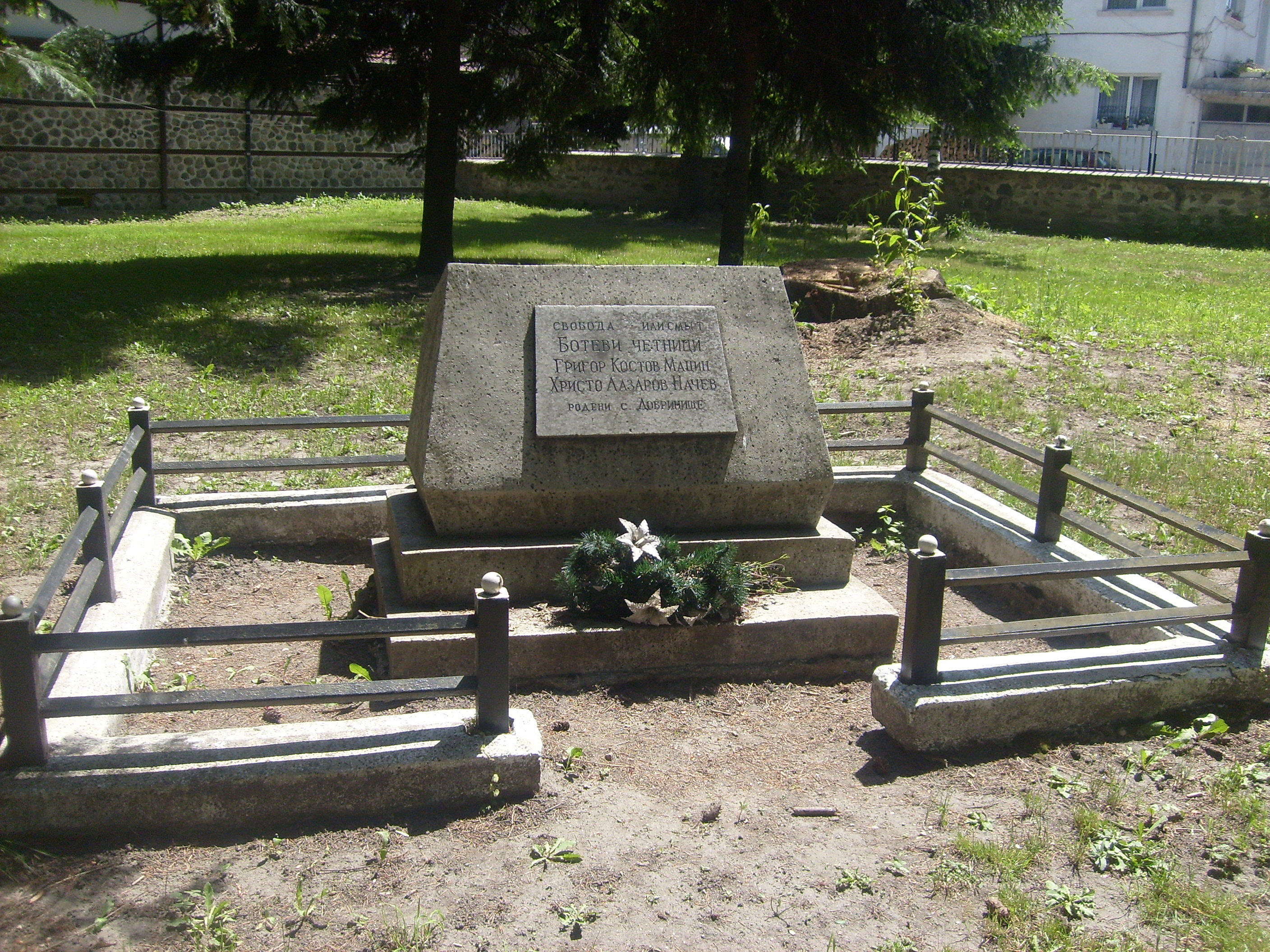 Memorial to members of Hristo Botev's armed detachment from Dobrinishte